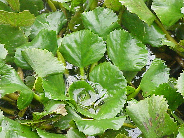 Species: Trapa natans Family: Trapaceae Image No. 2